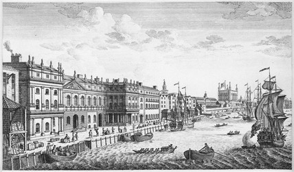 18th century print of London customs house